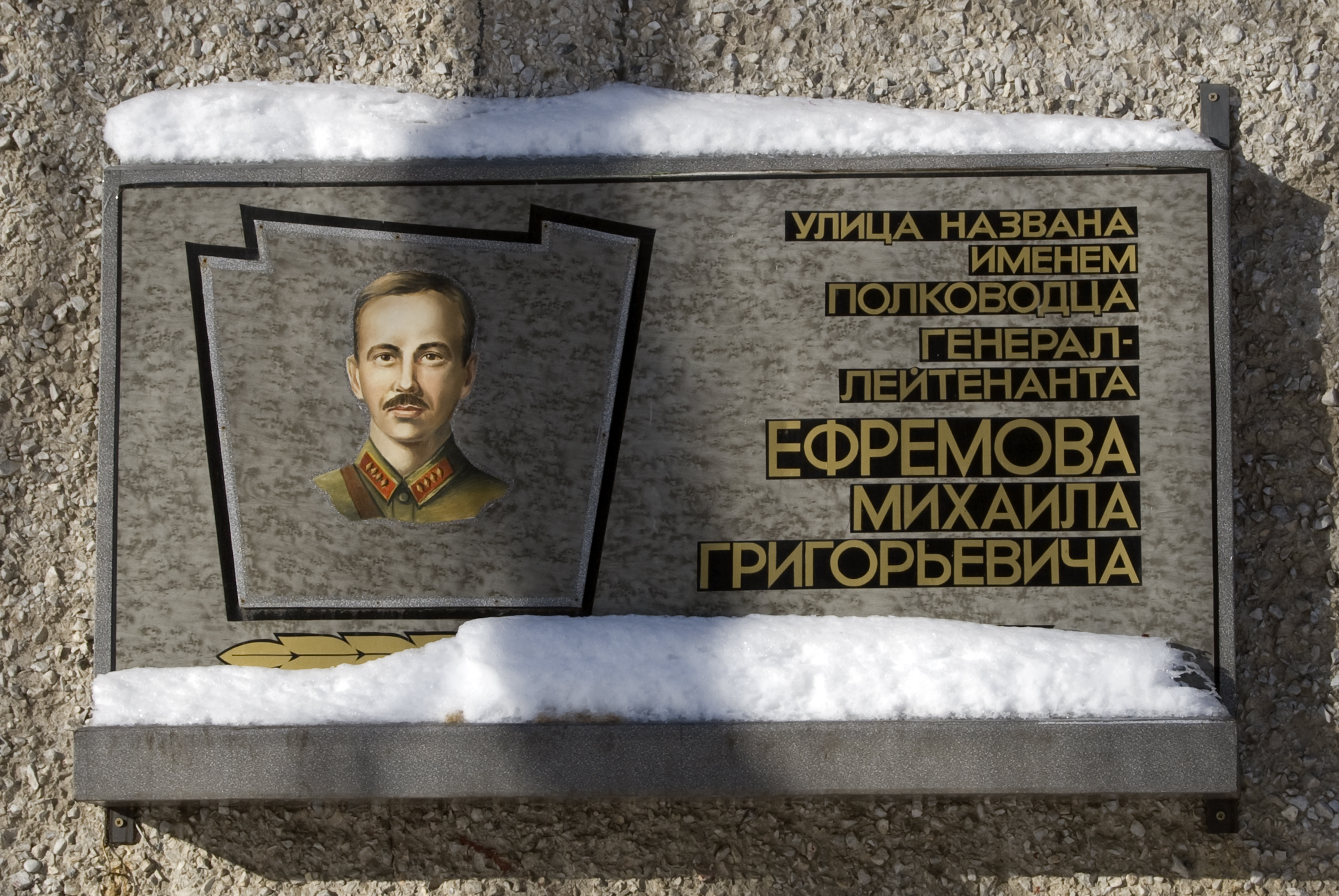 Memorial board in Gomel